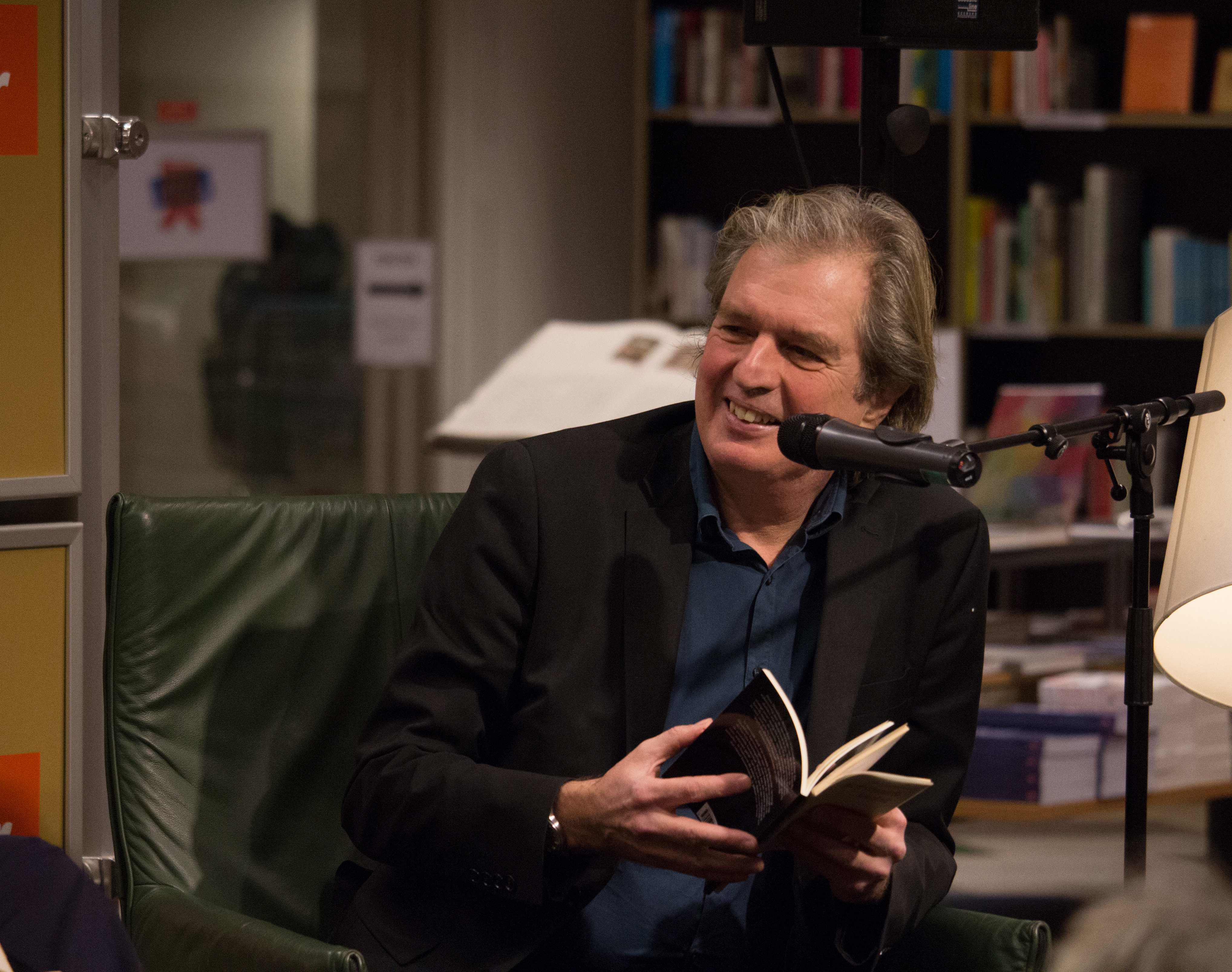 Wim Brands at "Week of Poetry" event